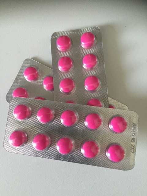 Producto farmacéutico